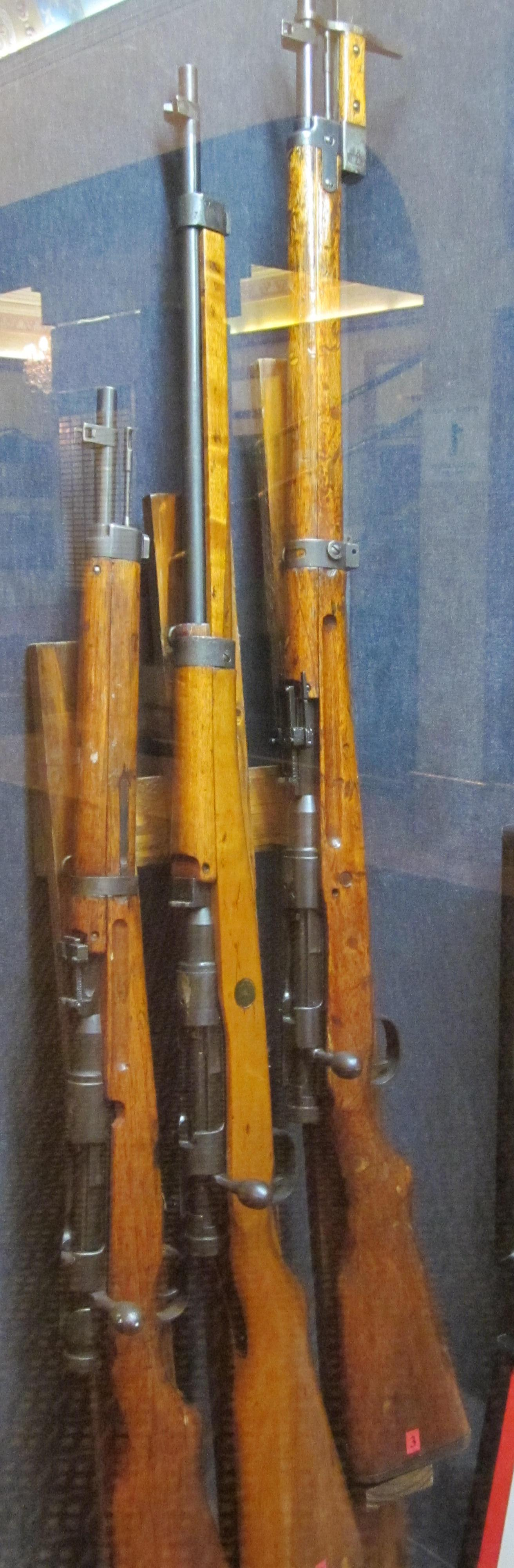 Type 38 and 99 rifles on display at the Marines' Memorial Hotel in San Francisco, California.